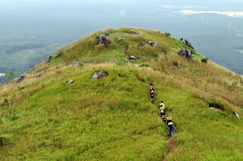 Broga Hill is located near Broga, Semenyih in Malaysia.